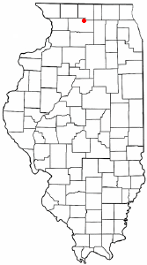 Category:Illinois city locator maps